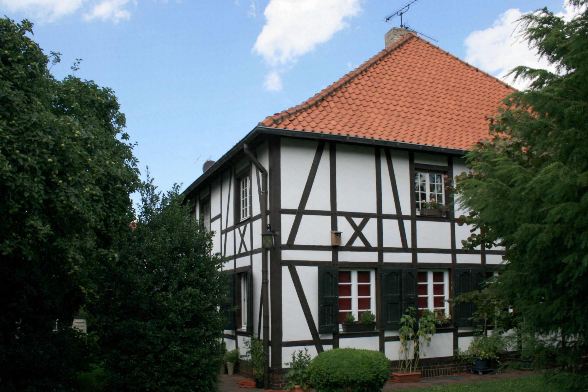 Cultural heritage monument No. G 007 in Mönchengladbach